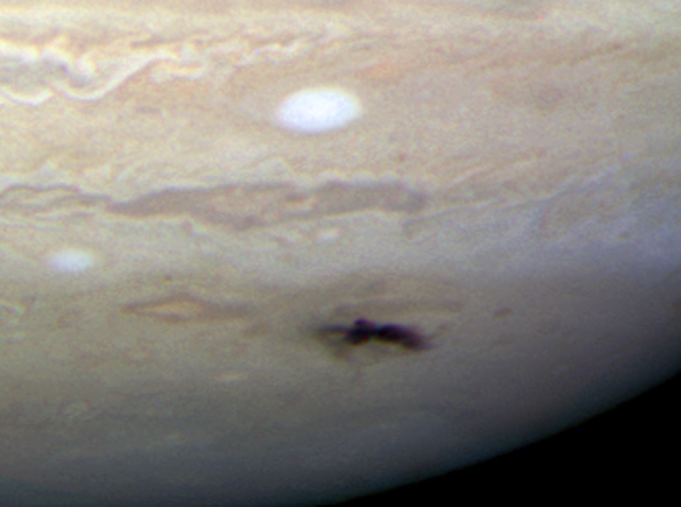 Closeup view of the new dark spot on Jupiter taken with Hubble's Wide Field Camera 3 on July 23, 2009. This Hubble picture, taken on July 23, is the sharpest visible-light picture taken of the impact feature. The observations were made with Hubble's new camera, the Wide Field Camera 3 (WFC3). The combination of the Hubble data with mid-infrared images from ground-based telescopes will give astronomers an insight into changes of the vertical structure of Jupiter's atmosphere due to the impact. The expanding spot is twice the length of the United States. First discovered by Australian amateur astronomer Anthony Wesley, the feature is the impact site and "backsplash" of material from a small object that plunged into Jupiter's atmosphere and disintegrated. The only other time in history such a feature has been seen on Jupiter was in 1994 during the collision of fragments from comet Shoemaker-Levy 9. The spot looks strikingly similar to comet Shoemaker-Levy 9's impact features. The details seen in the Hubble view shows lumpiness in the debris plume caused by turbulence in Jupiter's atmosphere. The impactor is estimated to be the size of several football fields. The force of the explosion on Jupiter was thousands of times more powerful than the suspected comet or asteroid that exploded in June 1908 over the Tunguska River Valley in Siberia. This is a natural color image of Jupiter as seen in visible light.